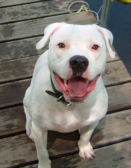 American Bulldog (original uploaded on en.wiki by Priestess1134)